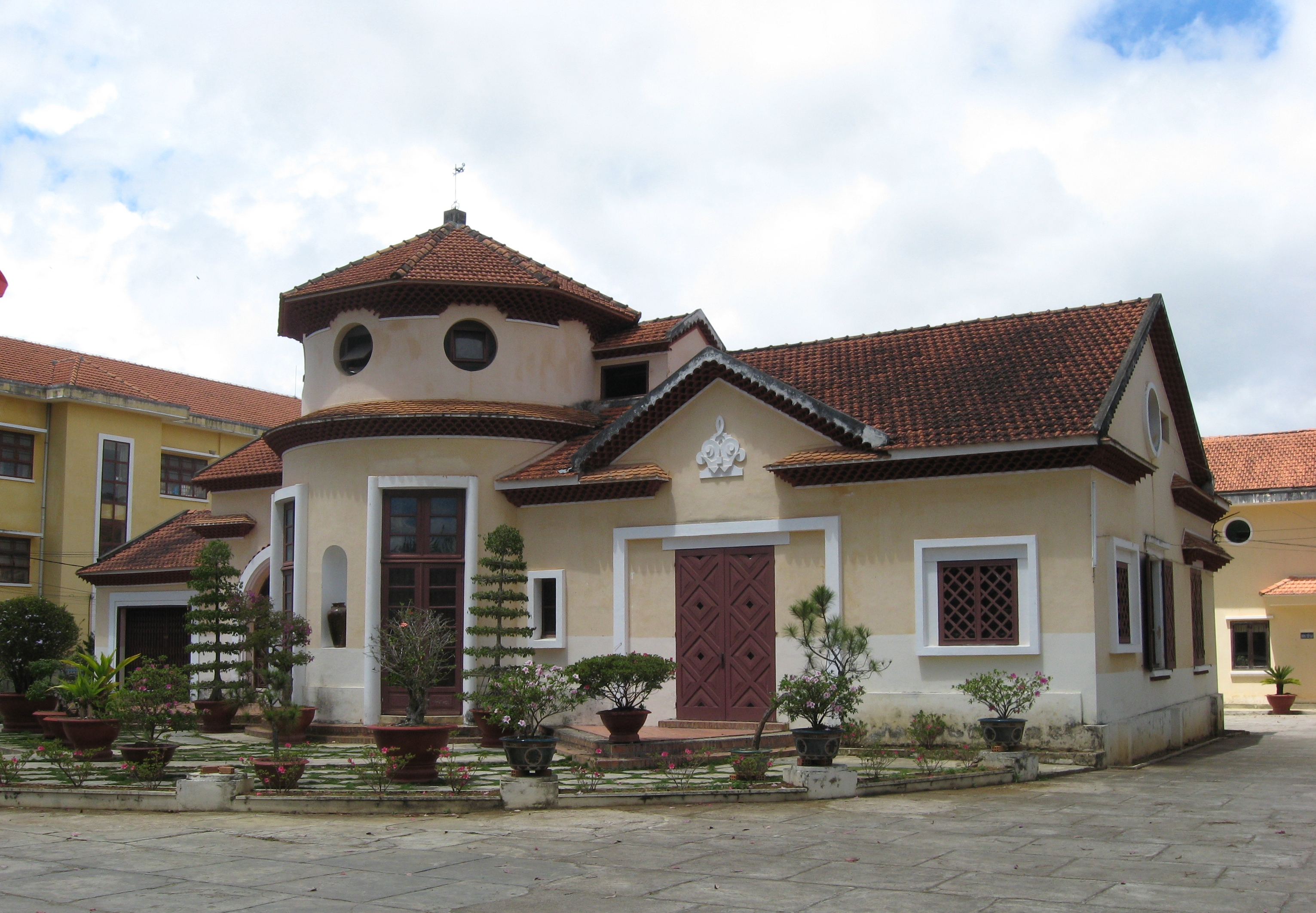 Villa, 27 Quang Trung Street, Da Lat